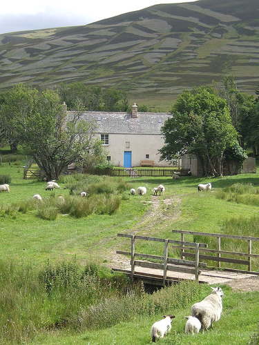 Photo I took of the Scalan Seminary, Braes of Glenlivet, on the 15th of July 2007.